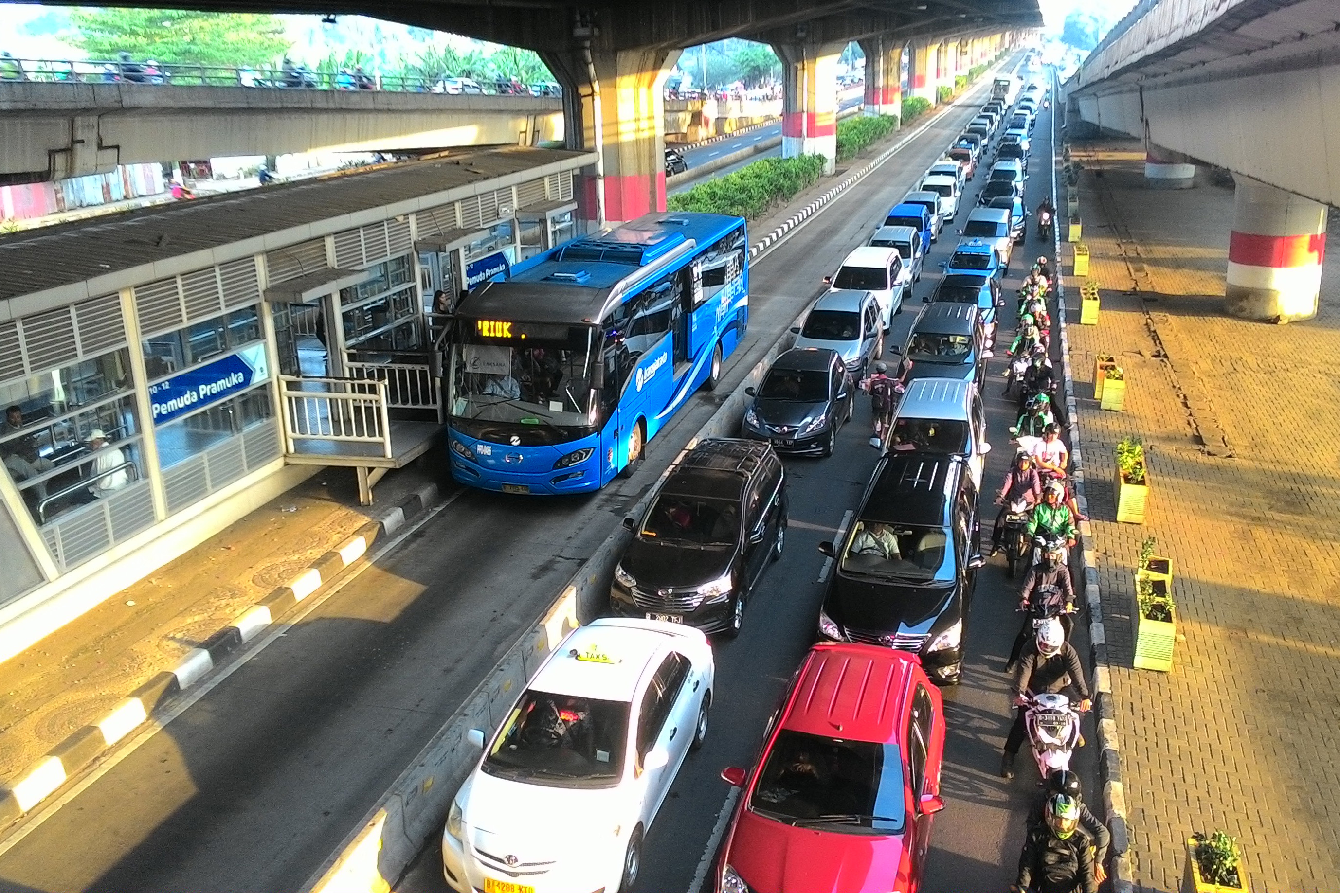 Transjakarta bus run on a dedicated line separated from traffic at Pemuda Pramuka bus stop on Jalan Ahmad Yani, East Jakarta.